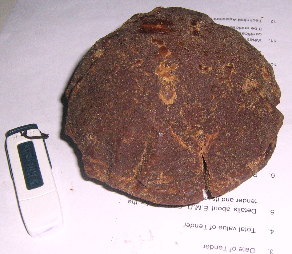 It is a palm jaggery of the state tamilnadu in India. (bottom side)